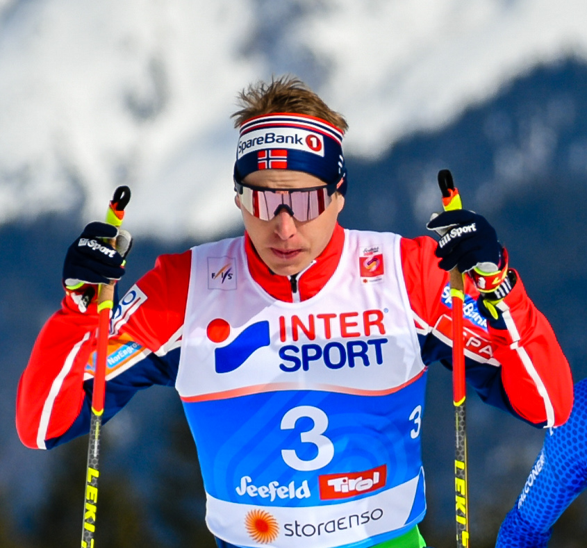 FIS Nordic Wolrd Ski Championships Seefeld 2019 - Men Cross Country 50km Mass Start Free. Picture shows Simen Hegstad Krüger (NOR).